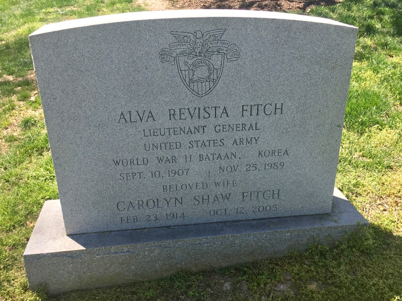 Grave site of Alva Revista Fitch (September 10, 1907–November 25, 1989), Lieutenant General, United States Army at Arlington National Cemetery. The site is along Curtis Walk near in Section 30 (Grave 603-A-RH).